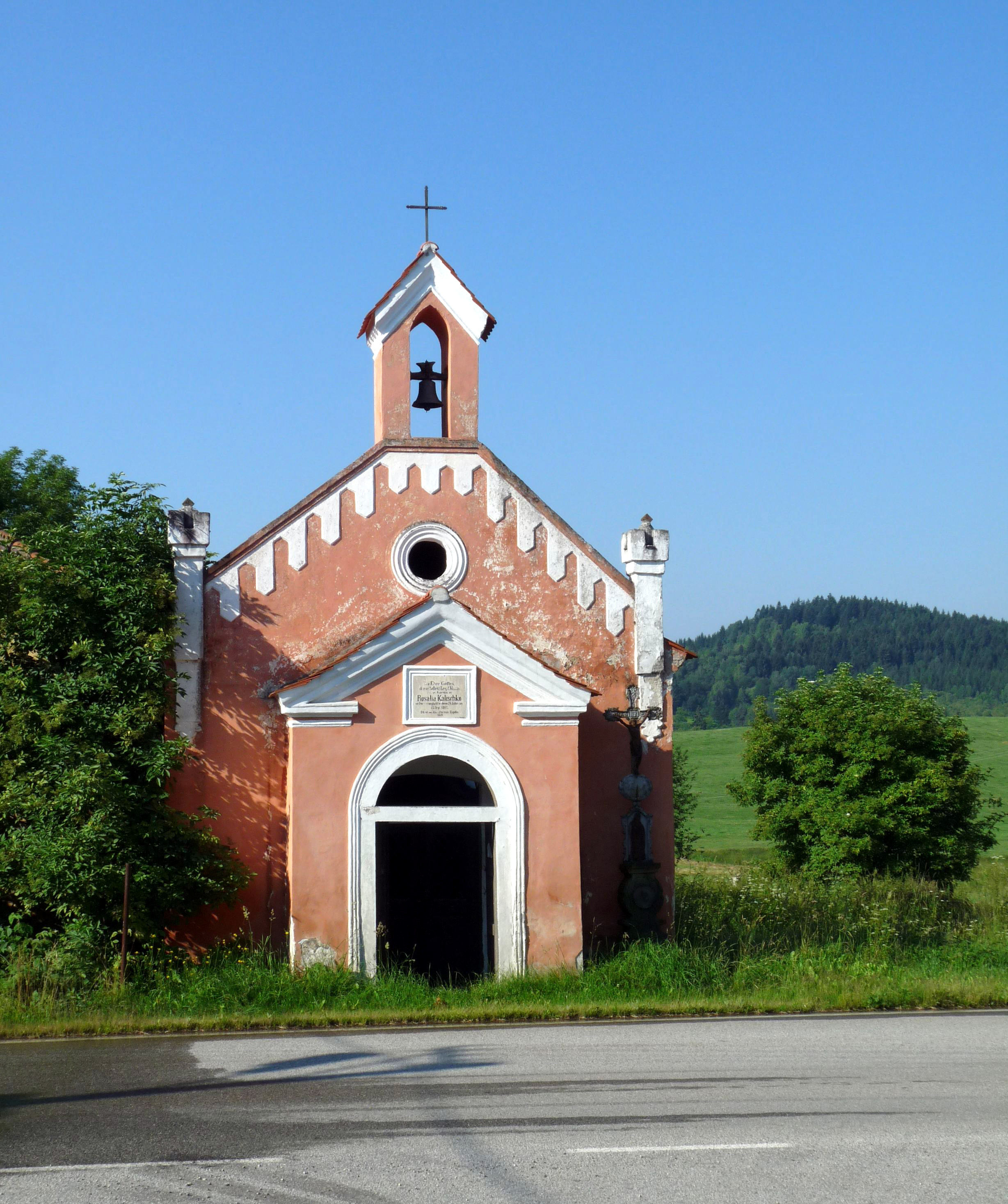 Chapel to the victim of a fire of 23 September 1887, Rosalie Kalischko, 24, in the village of Záhoří, Prachatice District, South Bohemian Region, Czech Republic.